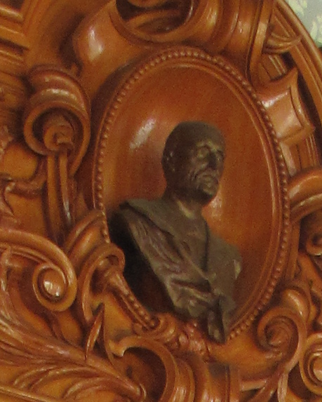 Imperial Spa - interier, Charlsbad, Czech Republic. Personality rights warningAlthough this work is freely licensed or in the public domain, the person(s) shown may have rights that legally restrict certain re-uses unless those depicted consent to such uses. In these cases, a model release or other evidence of consent could protect you from infringement claims.